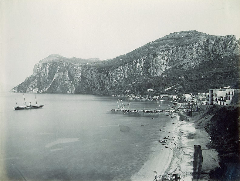 Giorgio Sommer (1834-1914), Capri, Marina. (ca. 1880). # 3142.